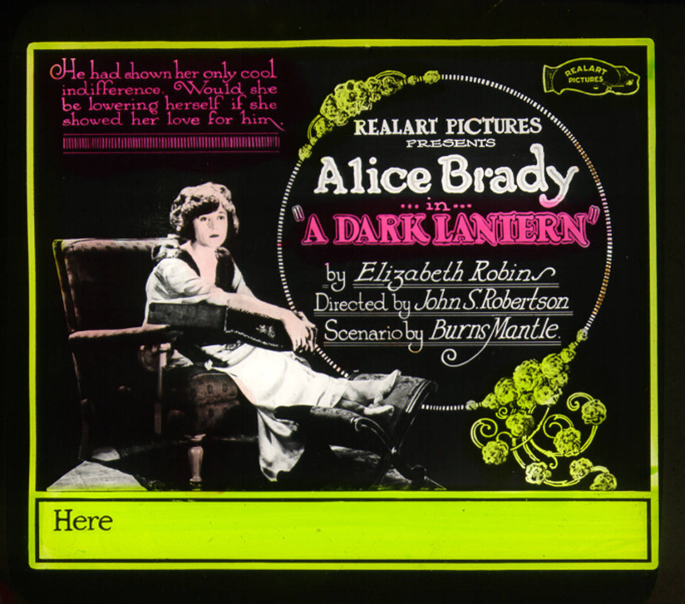 A Dark Lantern is a lost 1920 American silent drama film produced and released by Realart Pictures. This is a lantern slide for the film.